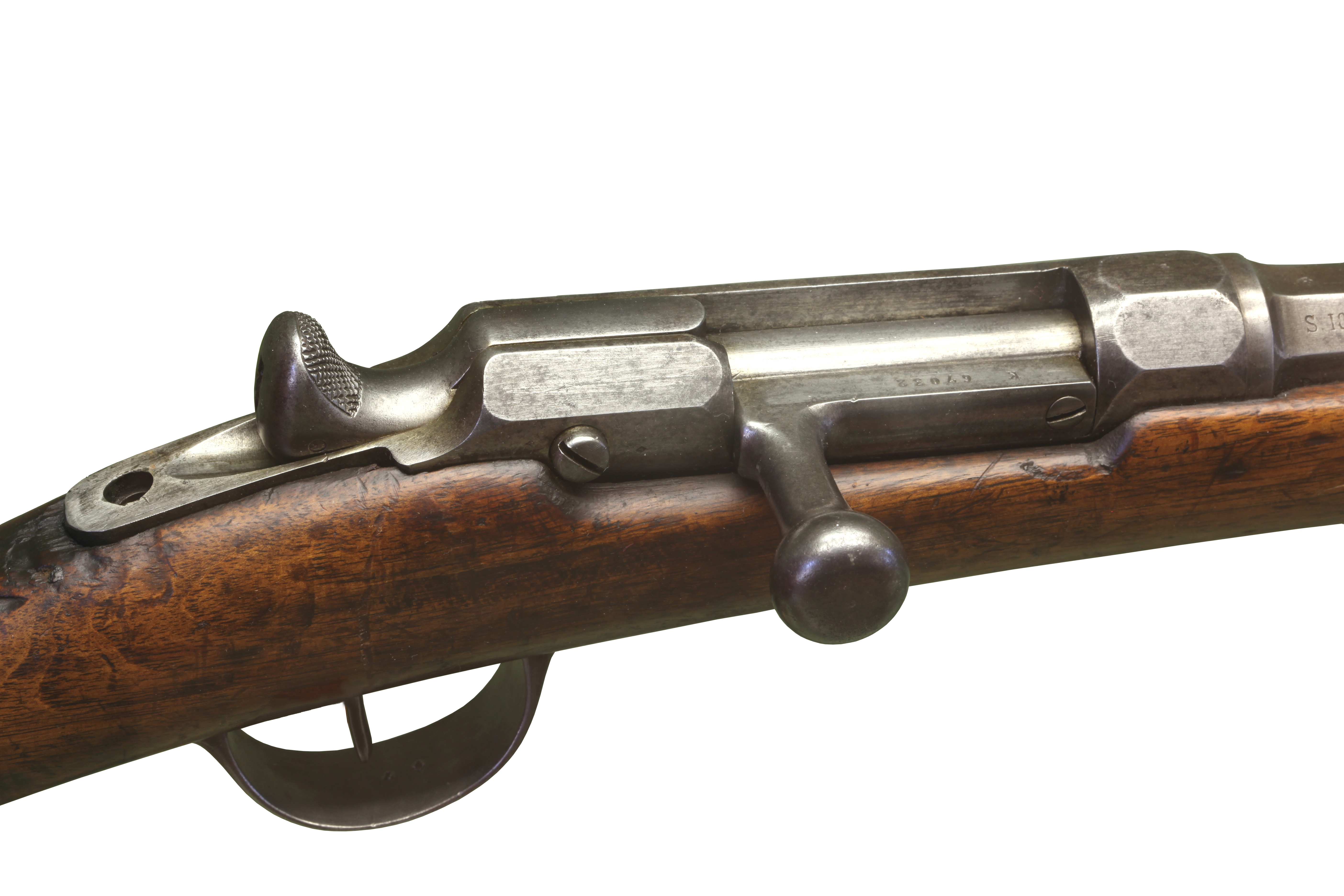 Chassepot